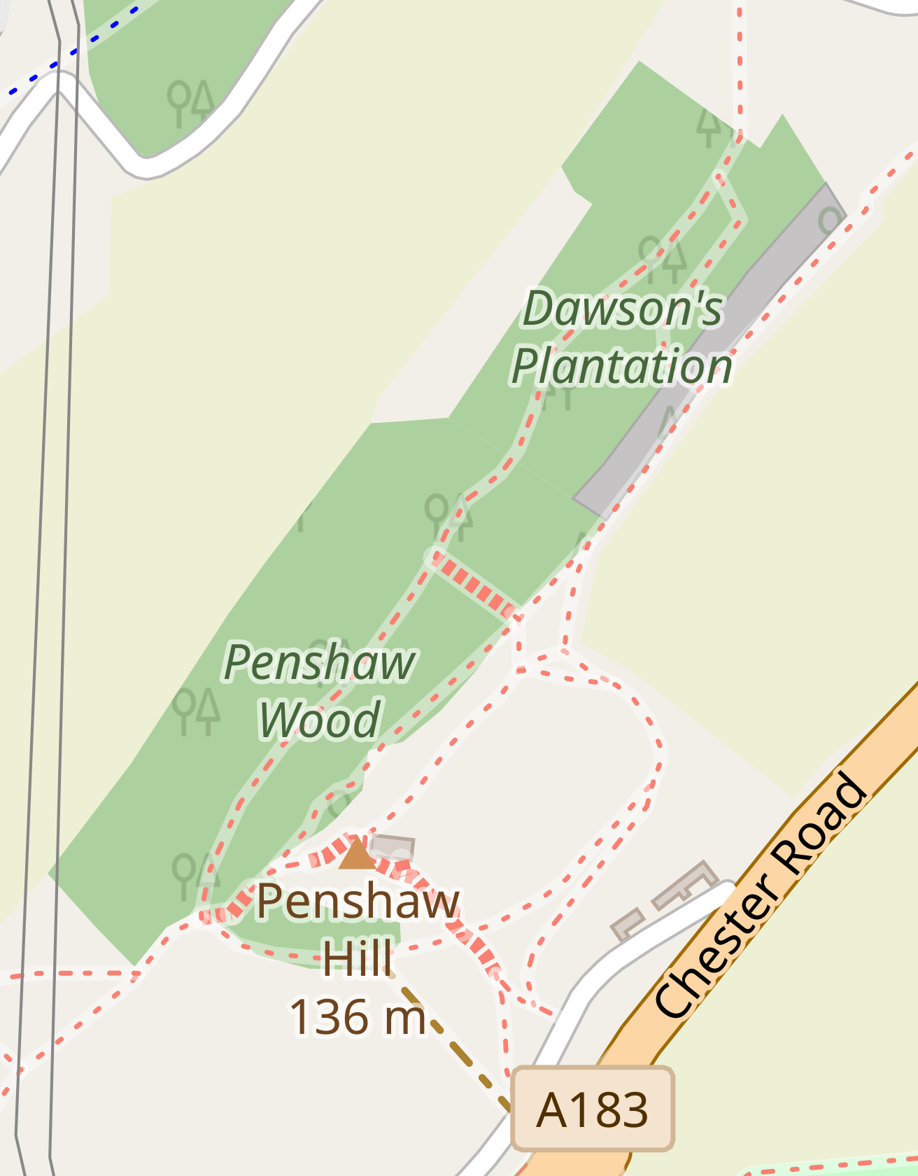 Map of the environs of Penshaw Monument This map may be incomplete, and may contain errors. Don't rely solely on it for navigation.